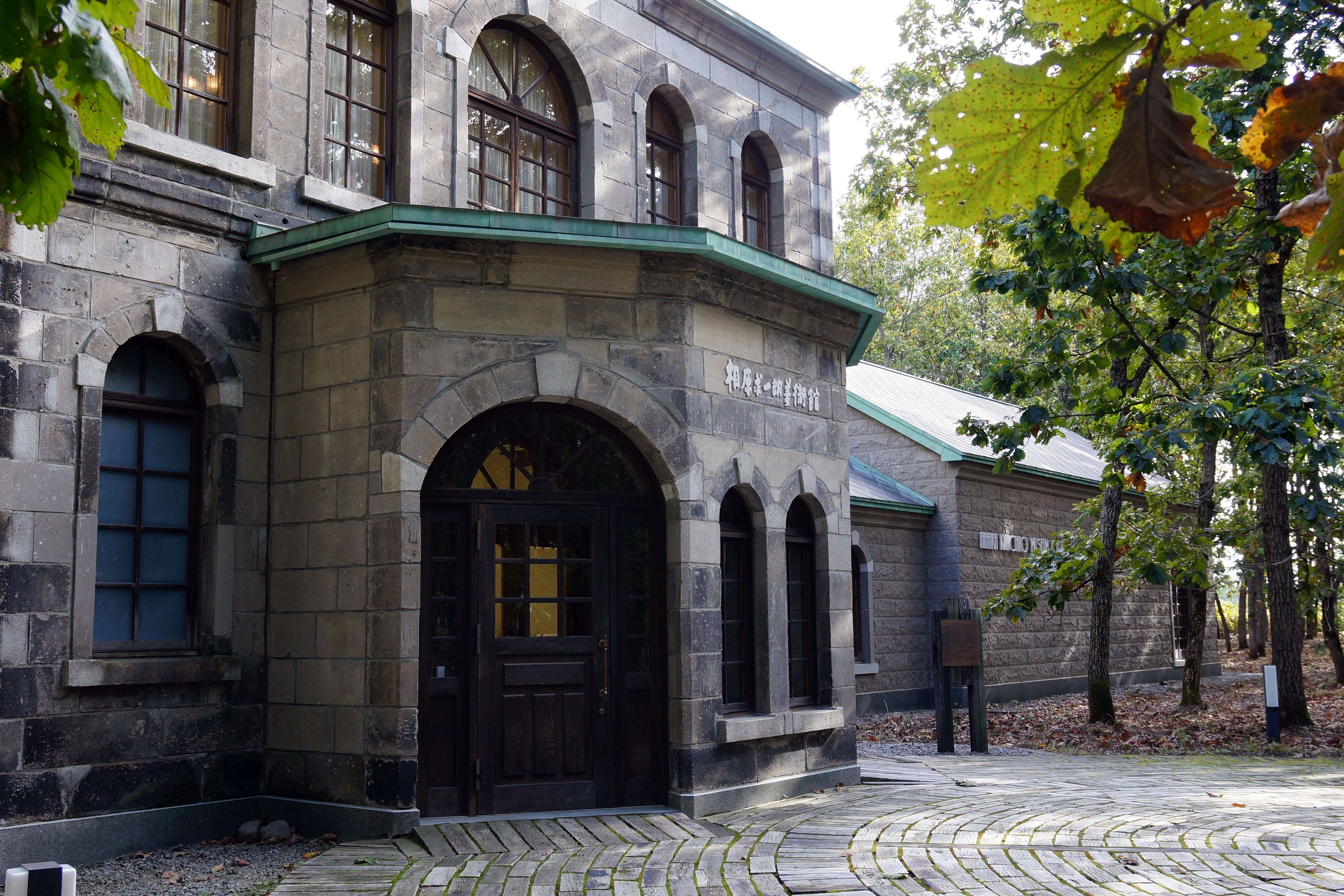 Nakasatsunai Art Village in Nakasatsunai, Hokkaido prefecture, Japan.